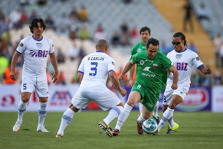 Ali Karimi, Roberto Carlos, Edgar Davids and Fernando Couto in a charity match in Tehran, Iran. The charity held to raise money for the patients who suffer MS.